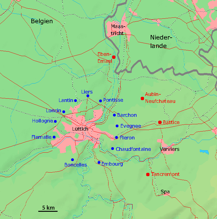 Map of fortresses around Liege in Belgium